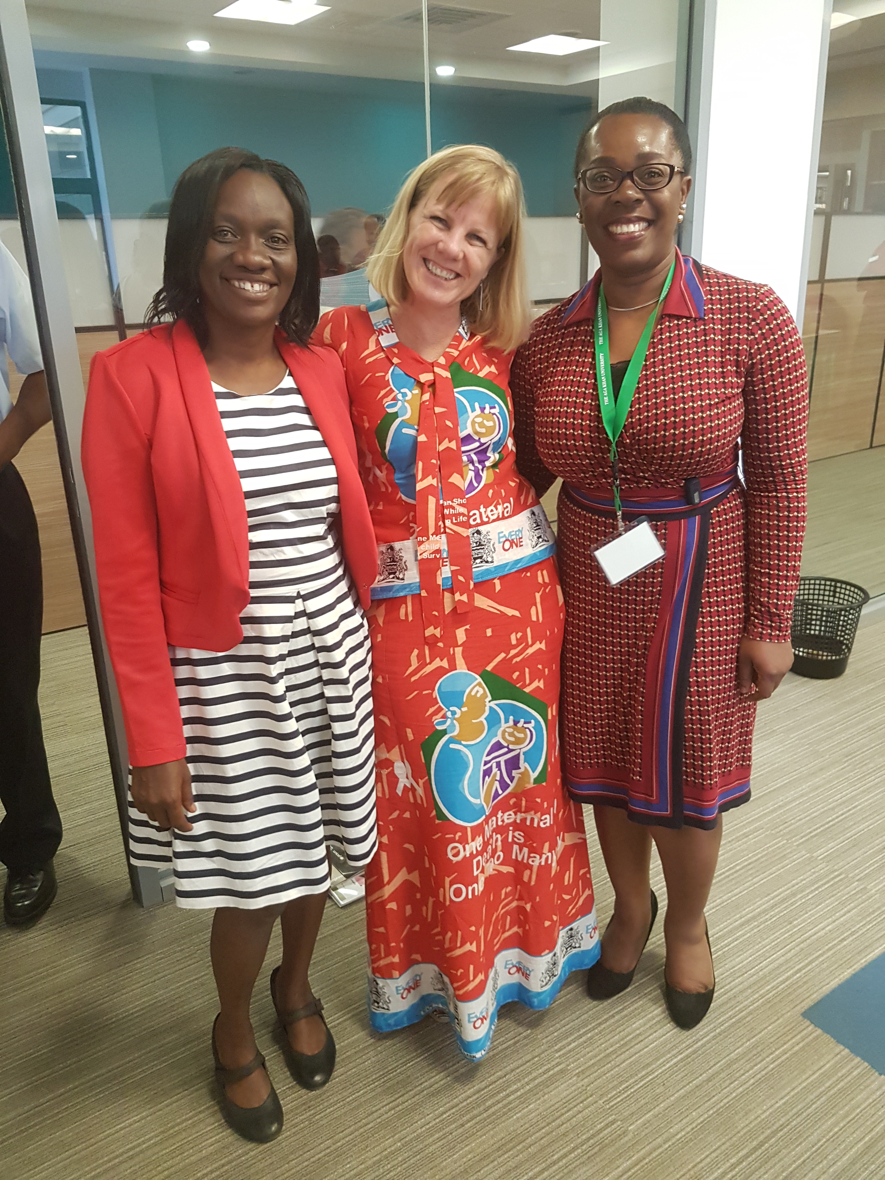 Joy Lawn with Dr Uduak Okomo and Dr Victoria Nakibuuka, upcoming African leaders for newborn health